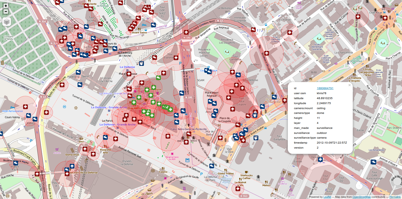 A crowdsourced map of surveillance cameras near La Grande Arche de la Défense in France. Map data OpenStreetMap. osmcamera.tk.